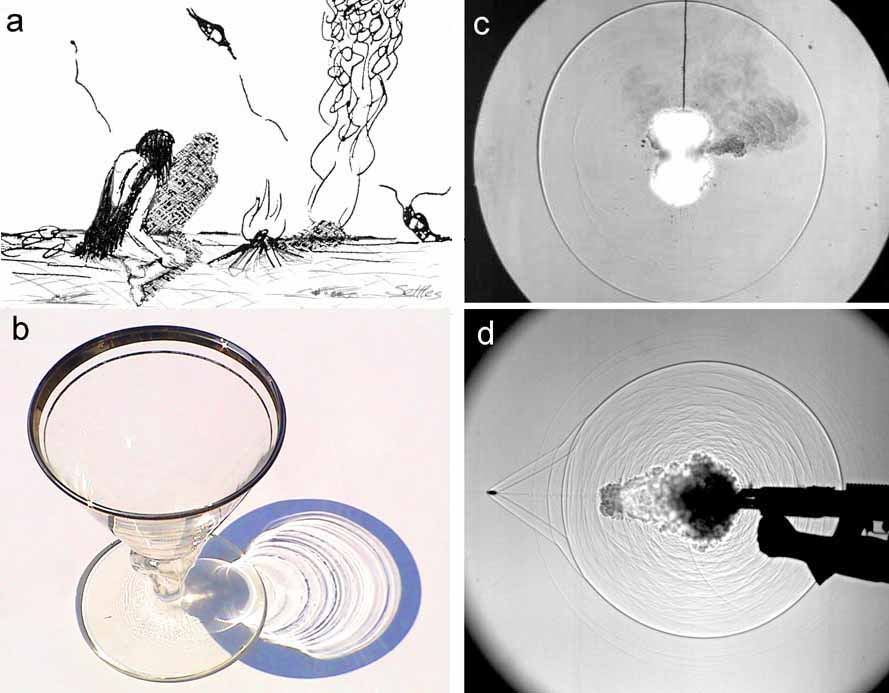 a) Prehistoric shadowgraphy, b) Sunlight shadowgram of a martini glass, c) "Docused" shadowgram of a common firecracker explosion, d) "Edgerton" shadowgram of the firing of an AK-47 assault rifle.